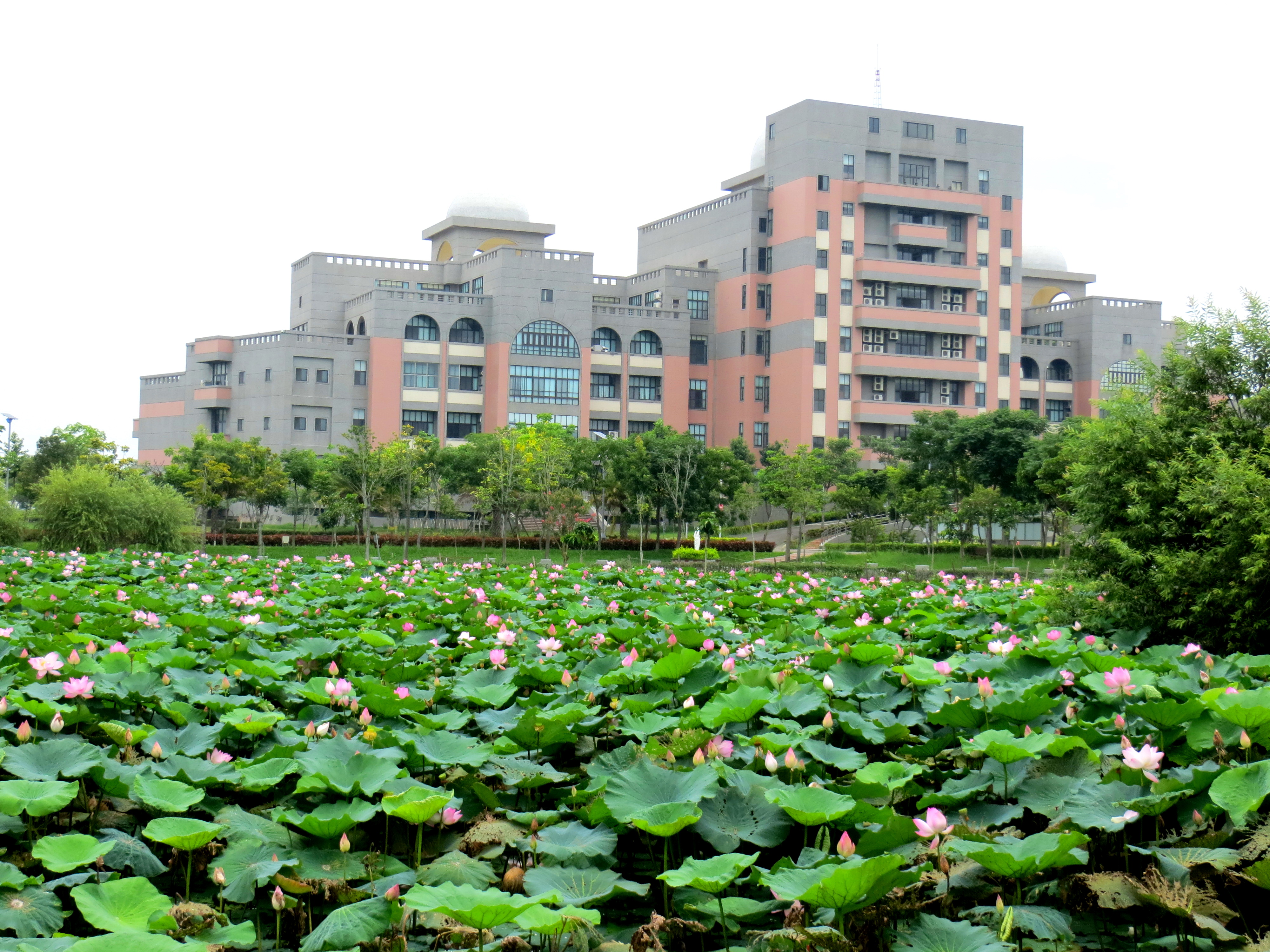 Pond with lotus in the Chung-Jen Junior College of Nursing, Health Science and Management (Dalin Campus),Taiwan.